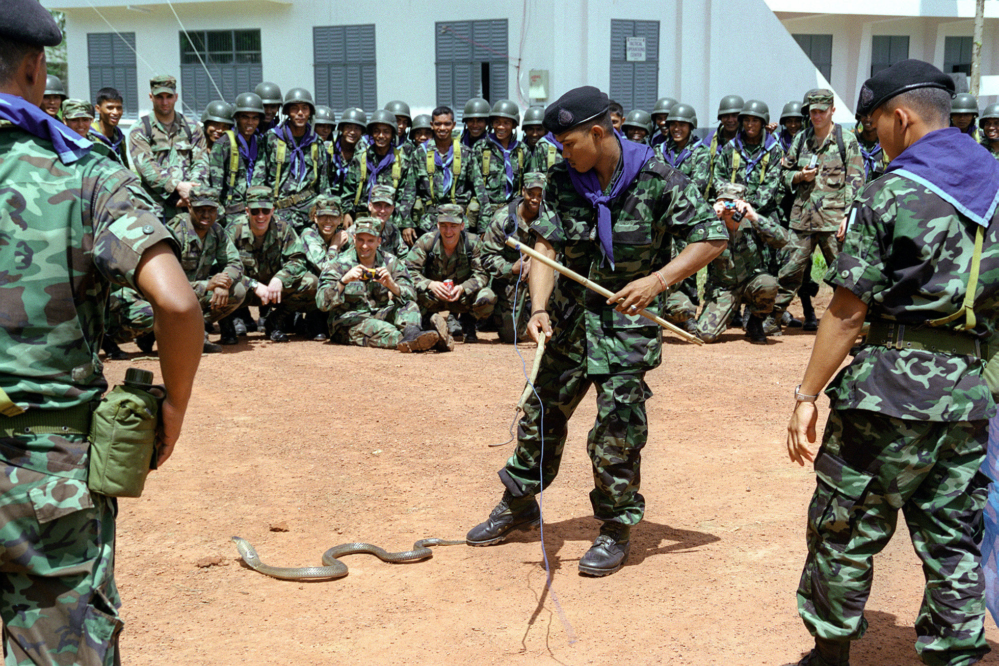 A Royal Thai Army soldier from 2nd Battalion, 15th Infantry Regiment demonstrates how to catch a King Cobra snake as Army soldiers assigned C/Company, 1st Battalion, 501st Parachute Infantry Regiment, and Royal Thai Army soldiers look on, during Jungle Survival Training at Thong Song, Thailand during Exercise COBRA GOLD 2000.